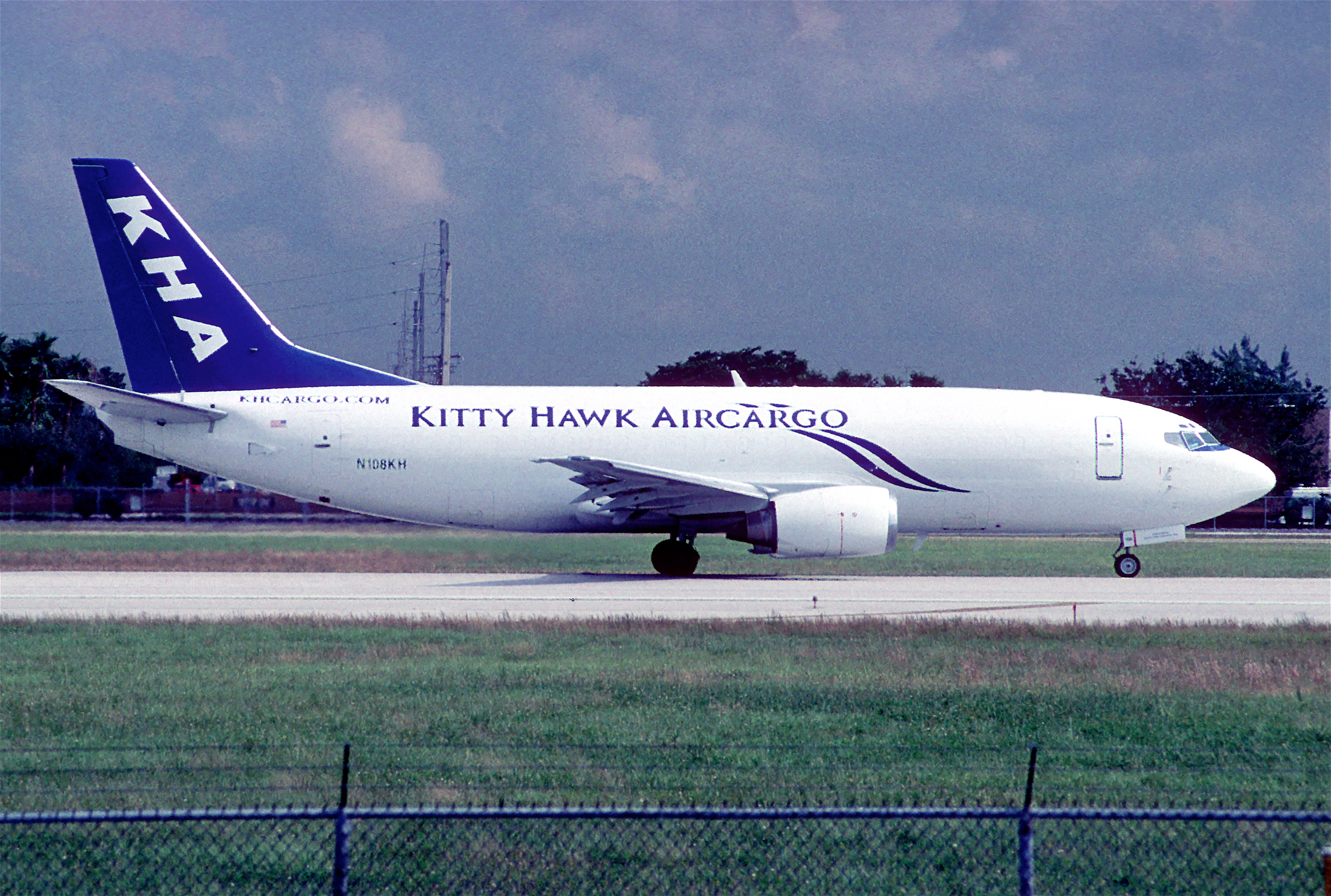 This Boeing 737-3Y0 took its first flight on December 13, 1990...(c/n 24902/ 1973) 07/01/1991 Tradewinds Airlines 9V-TRB 01/04/1992 Silkair 9V-TRB 02/01/1999 SATA International CS-TGR 29/06/2001 MALEV Hungarian Airlines HA-LEX 01/02/2004 Kitty Hawk N108KH converted to freighter 12/02/2009 Donghai Airlines B-2897